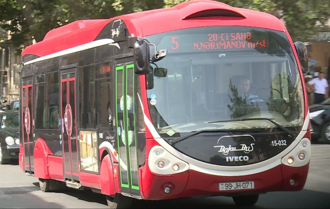 Bakubus